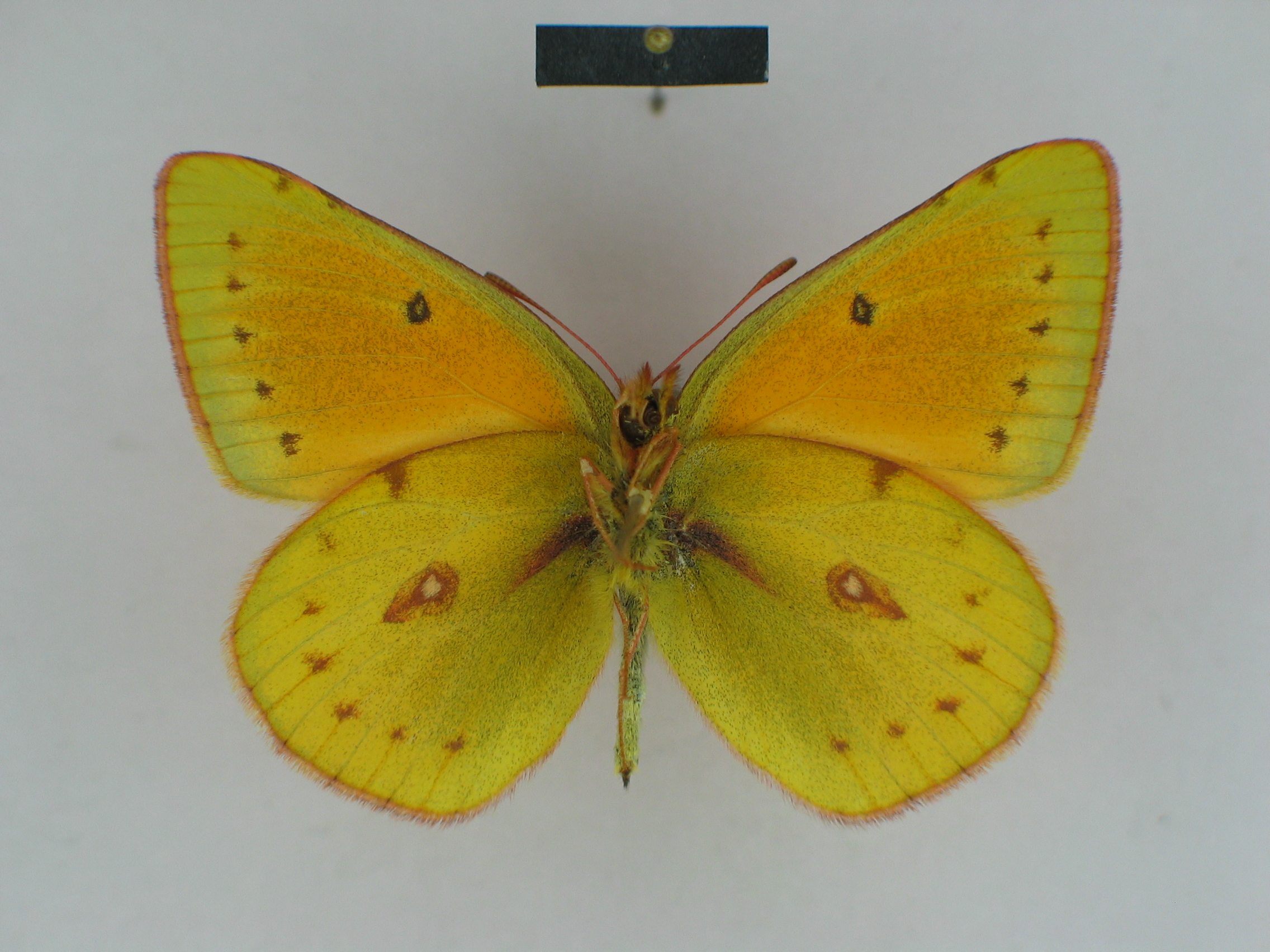 Syntype of the species Colias lesbia andina from the collection of the Museum für Naturkunde (Berlin); ♂ ventral side; scalebar=1 cm